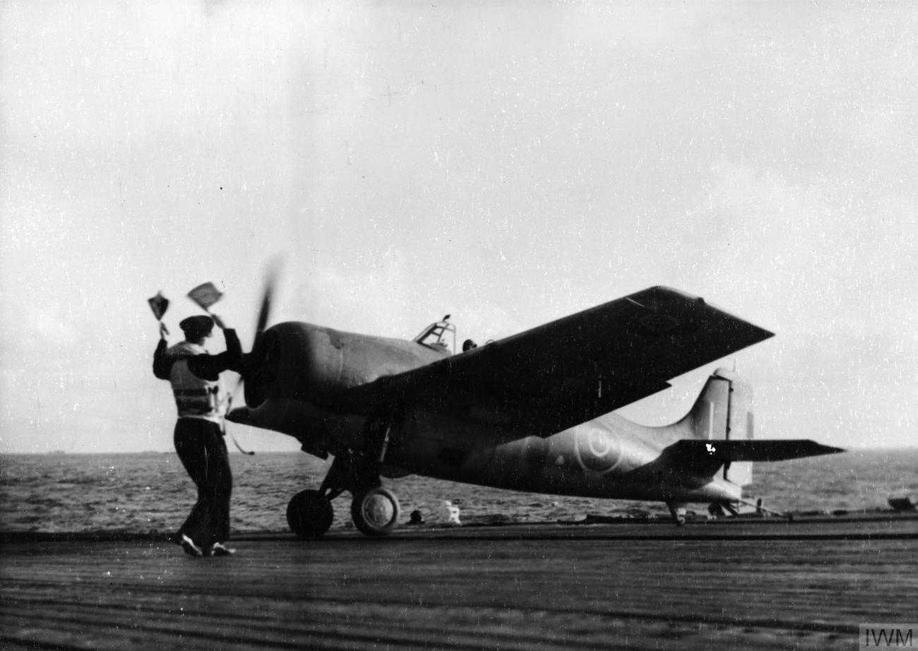 A Royal Navy Grumman Wildcat fighter of 811 Naval Air Squadron, Fleet Air Arm, landing on the escort carrier HMS Biter (D97) after a successful action against a German Junker Ju 290. The German aircraft had been shadowing the convoy which HMS Biter was protecting.